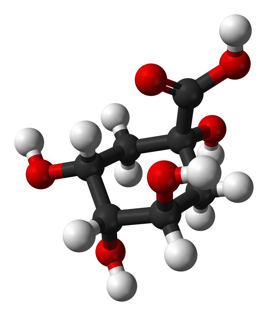 Ball-and-stick model of the quinic acid molecule